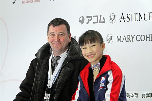 Christina Gao with their coache Brian Orser at the 2010-2011 Junior Grand Prix of Figure Skating Final.